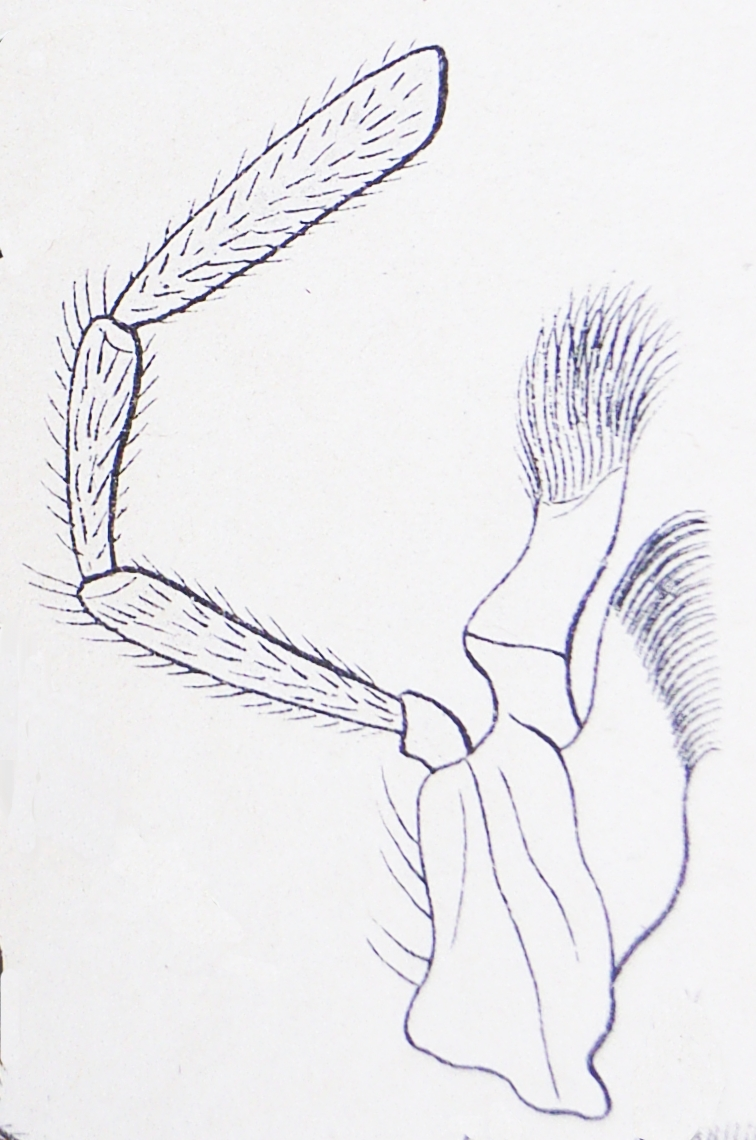 Maxilla with palpus